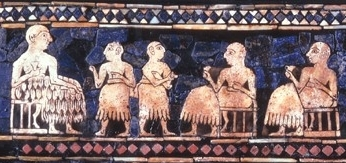 Sumerian feast. Fragment of the Standard of Ur